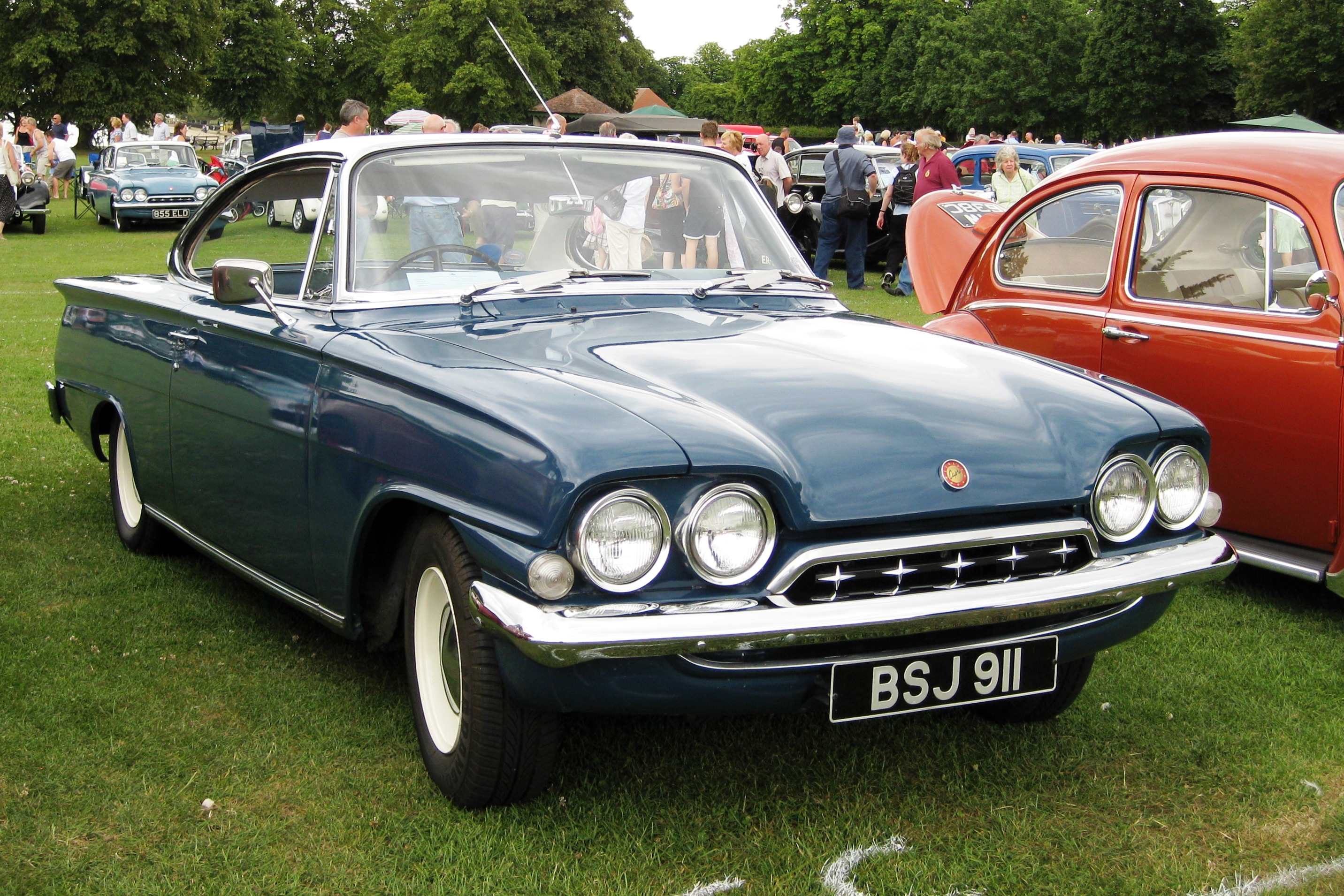 Ford Capri from before they were (so) famous